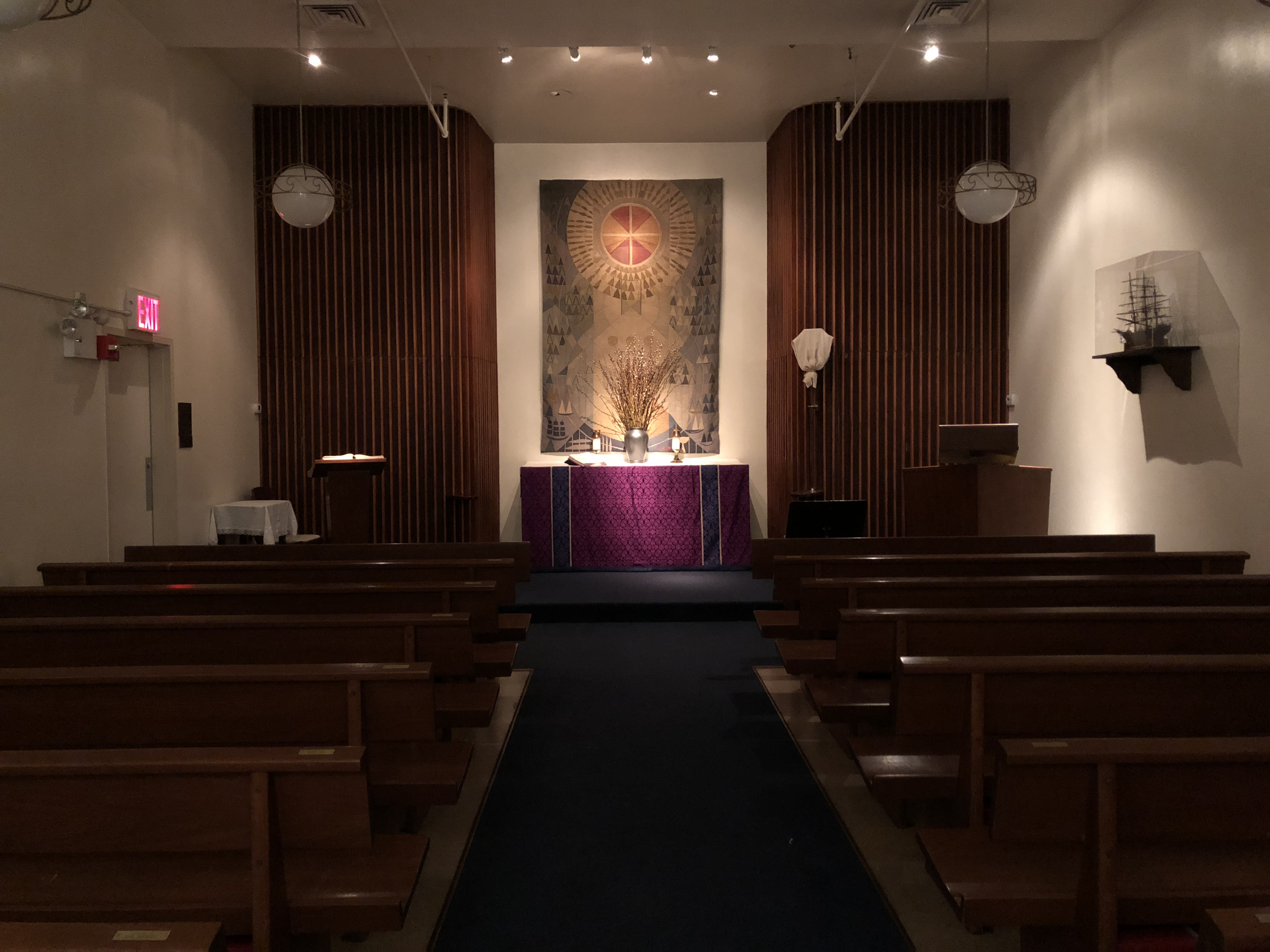 This is a picture of the Christ Lutheran Church, held in the Seafarer and International House